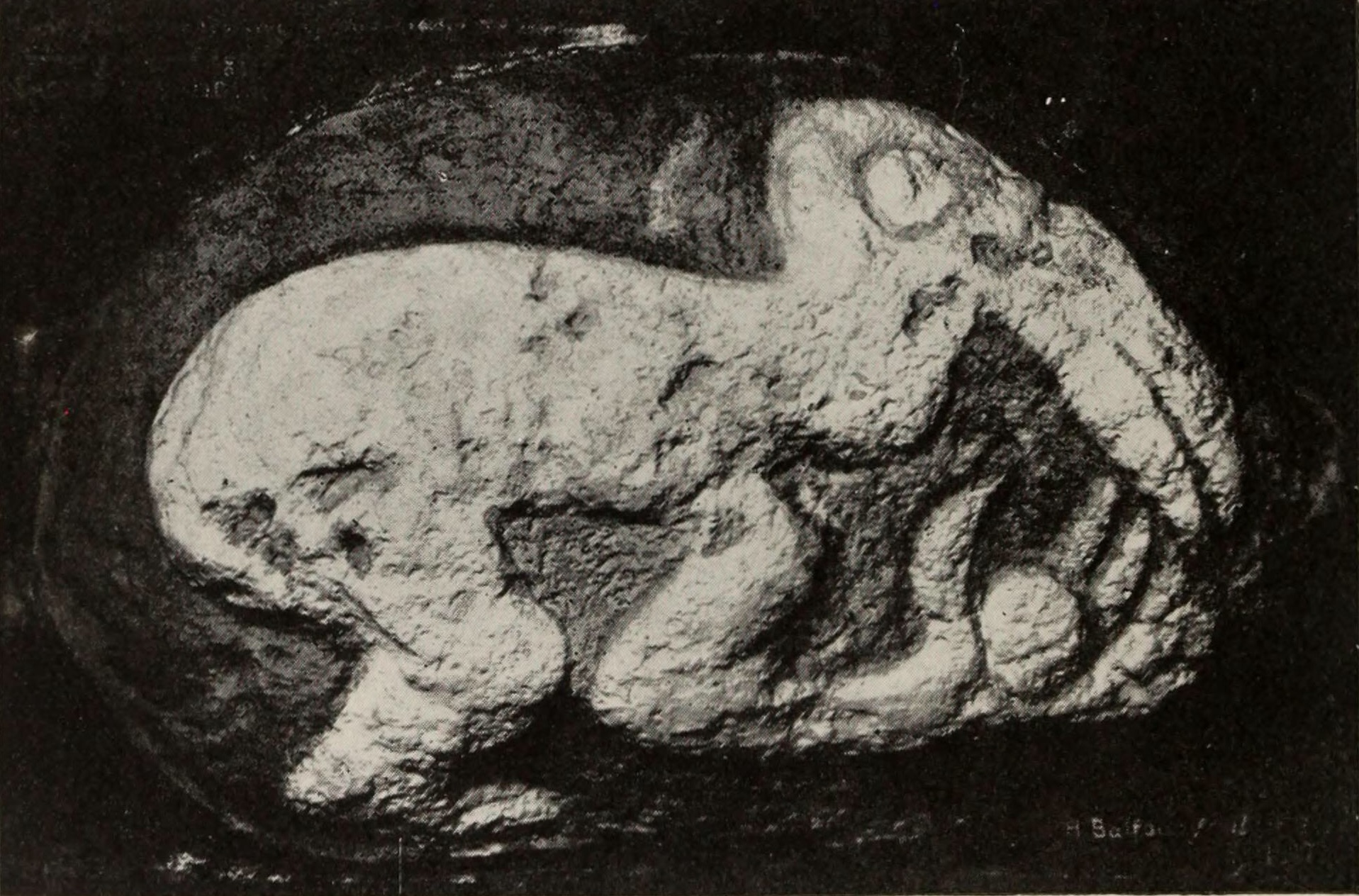 Stone Exhumed From Orongo, 1914. Bird-man in low relief with egg in hand. Length of carving, 36.5 cm. British Museum.